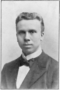 Icelandic economist and Esperantist Þorsteinn Þorsteinsson